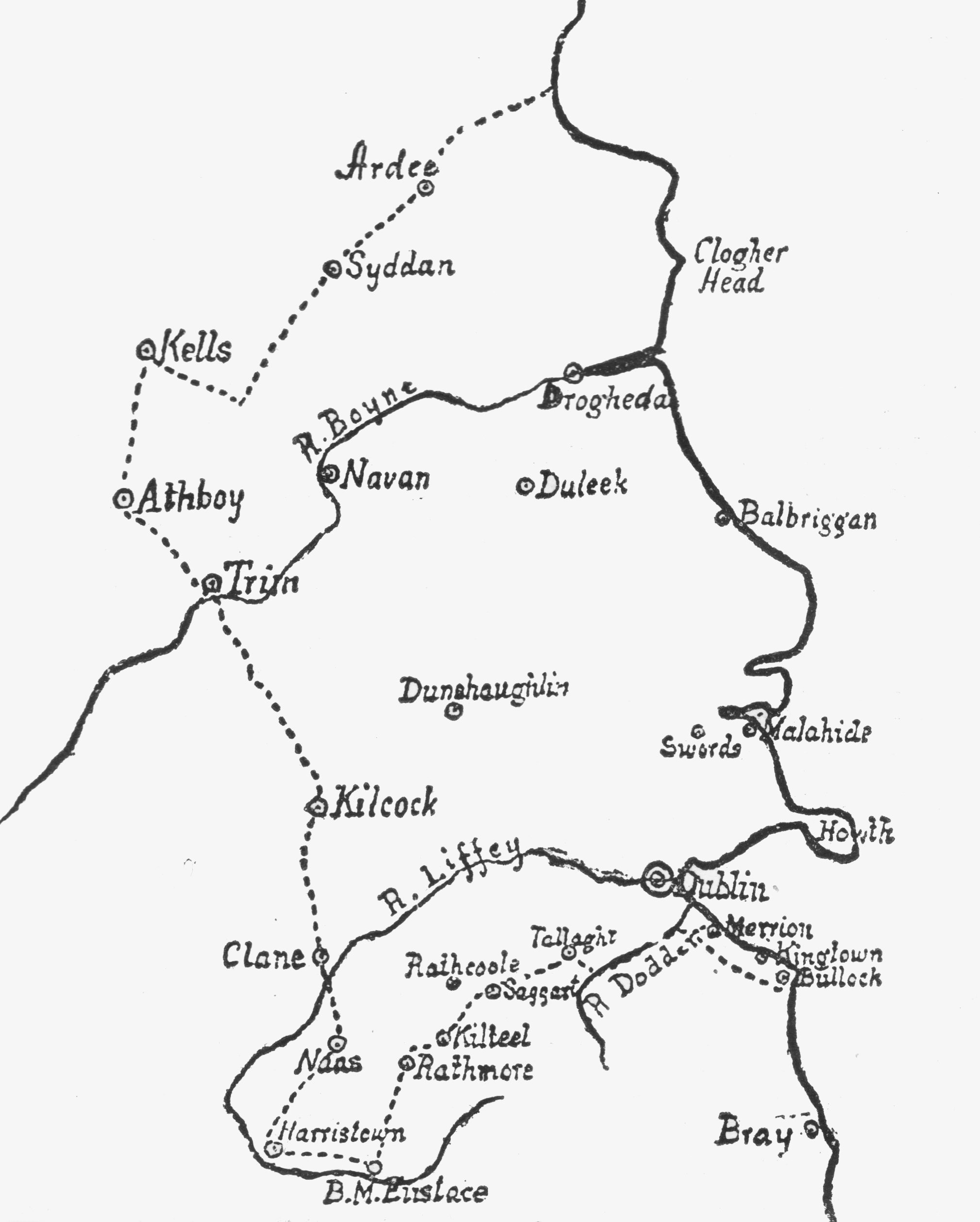 The Pale, or the English Pale, according to the Statute of 1488. A map of that area of Ireland commonly known as the Pale which, by the the 15th century, was under effective English colonial rule.